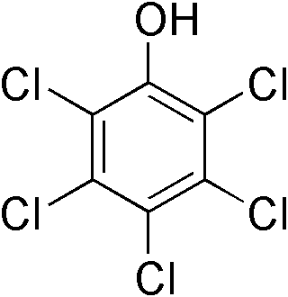 chemical structure of pentachlorophenol